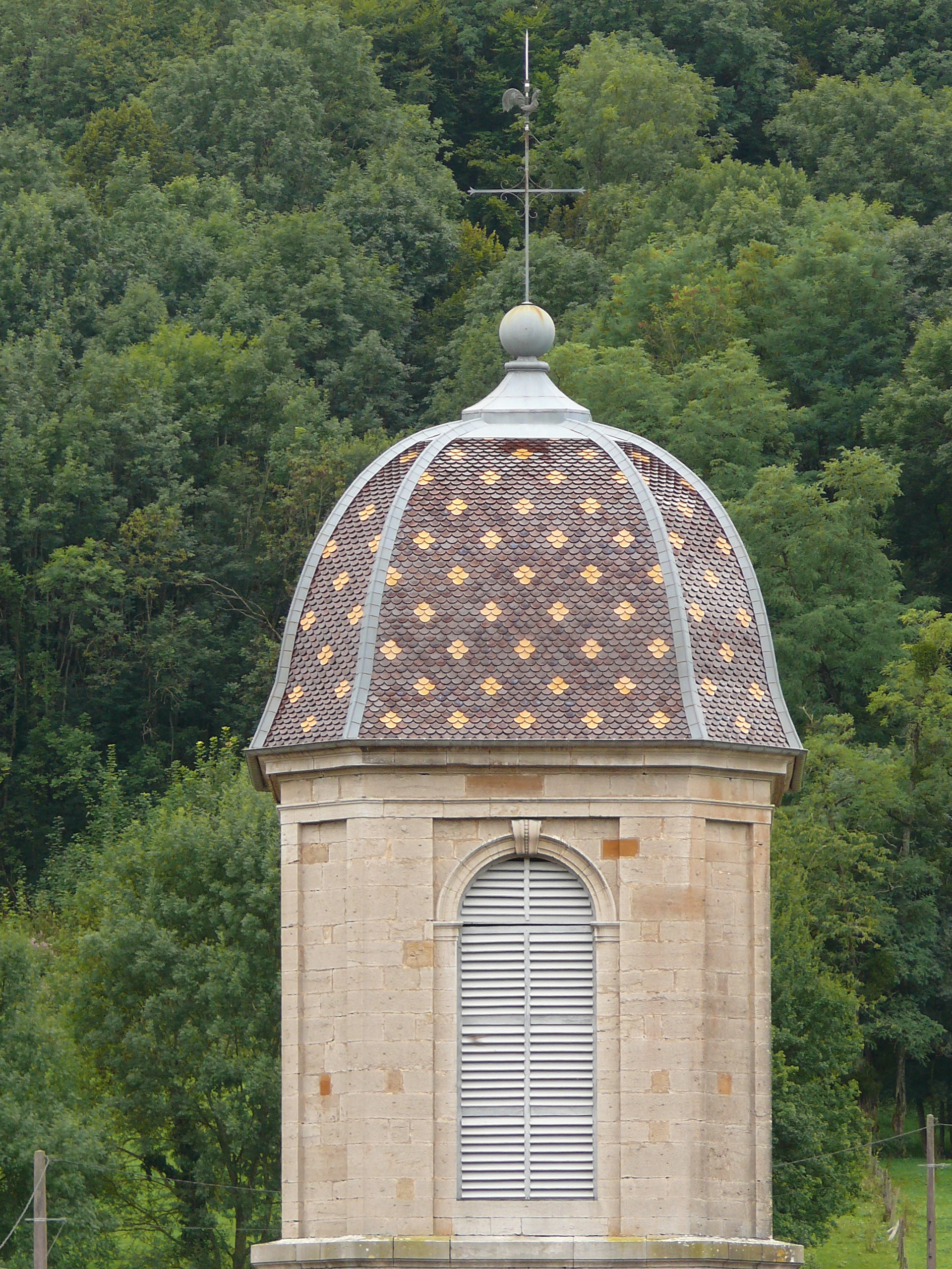 Belltower of the church of Chariez (Haute-Saône, France) (1780s)